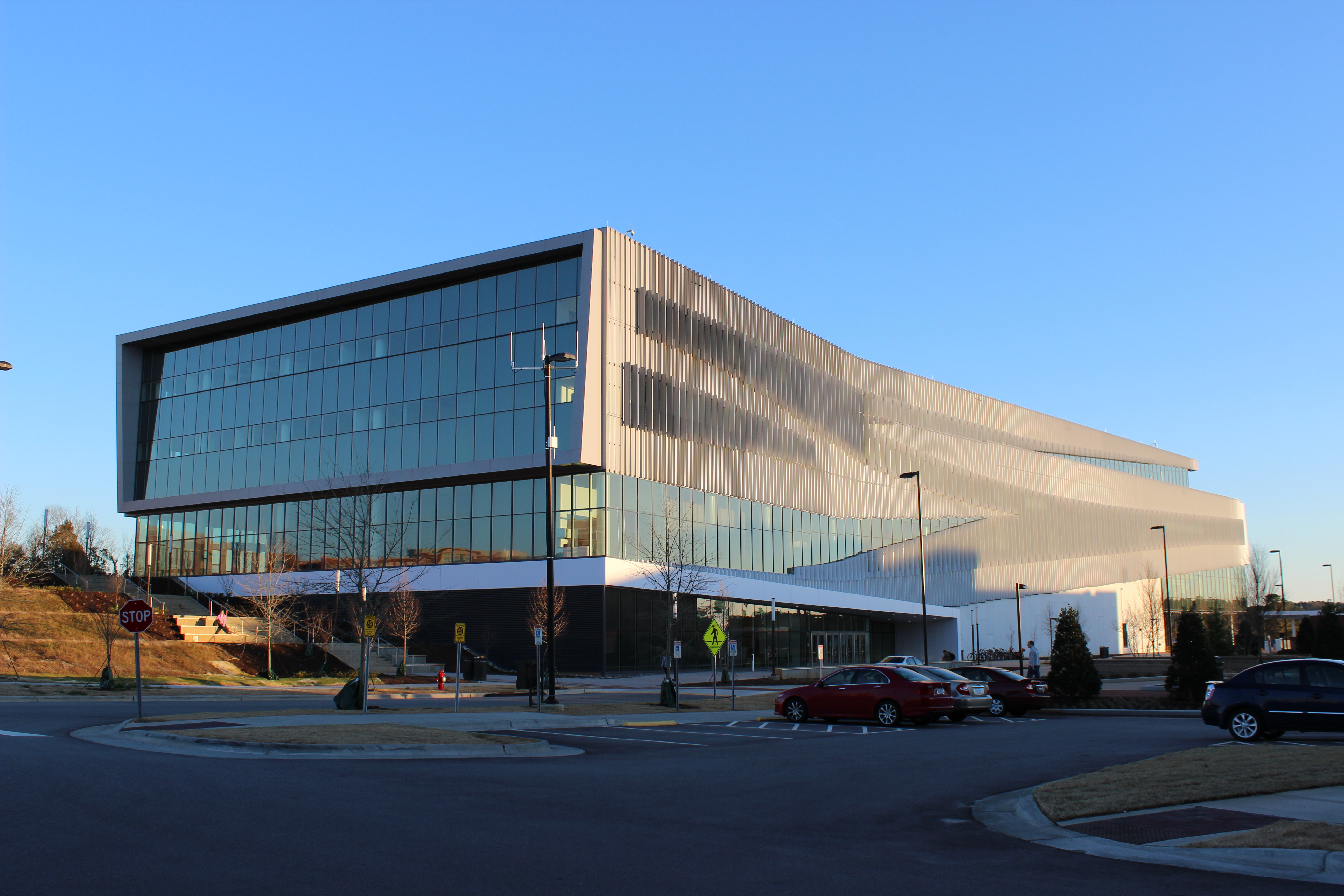 second angle of Hunt